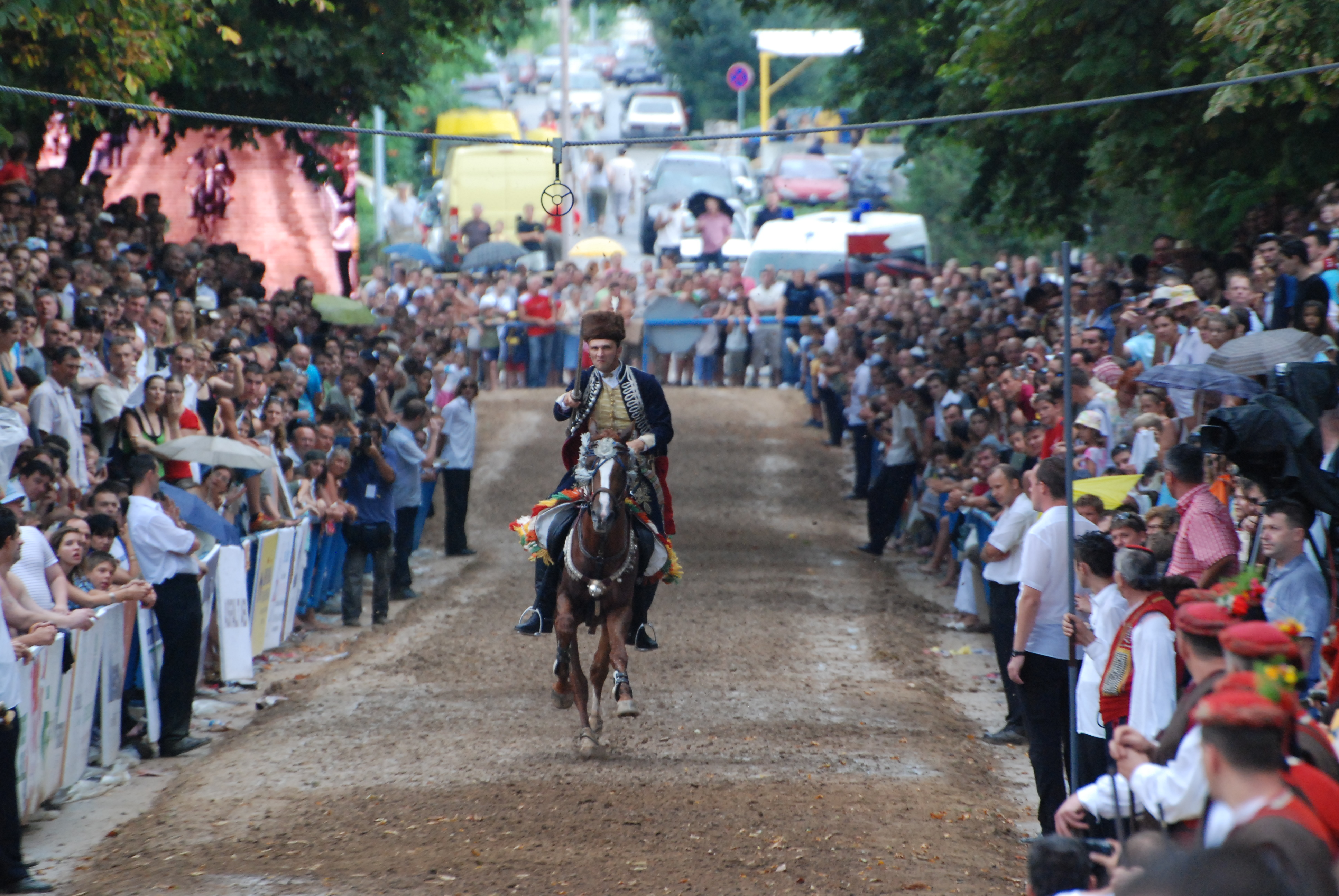 Alkar.